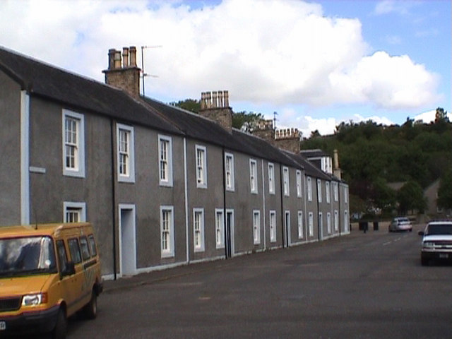 C19th mill workers' cottages, Bridge Street, Catrine, Ayrshire, Scotland